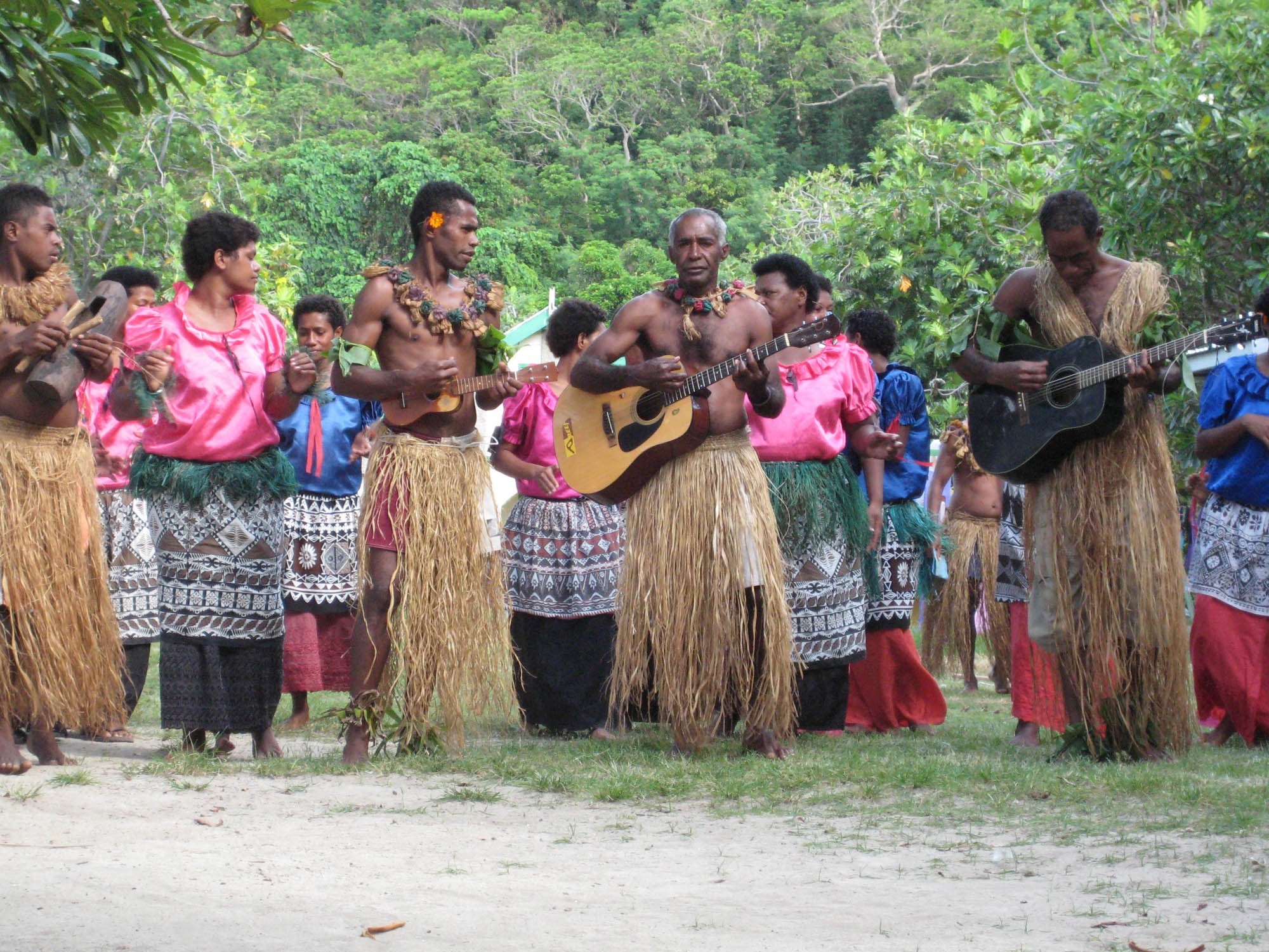 A music show in Fiji. Photo was taken in 2008